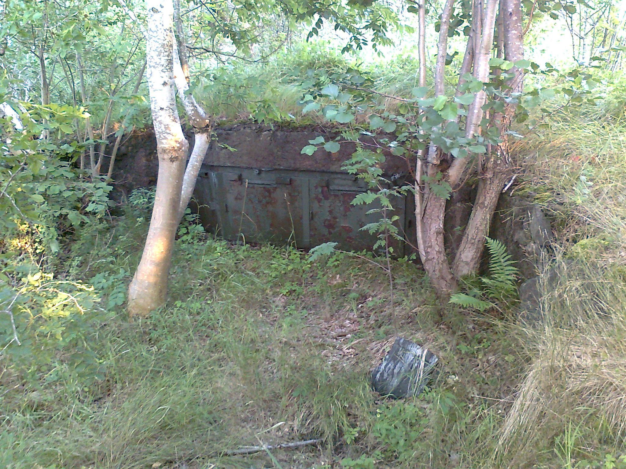 På Bråvikens södra strand ligger resterna av Skenäs skans. Försvarsanläggningen skyddade tillsammans med en mindre fästning på Säterholmen inloppet mot Norrköping och hade sin storhetstid på 1700-talet. Skenäs skans har sitt ursprung i medeltiden, men uppgifter om hur denna eventuella medeltida skans såg ut eller hade för uppgift finns inte bevarade. Skansen i Skenäs kom att vara i militärt bruk ända in på 1900-talet.